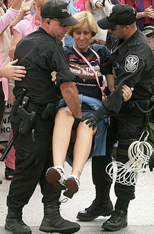 S26 Photos: Sheehan, Others Arrested at White House